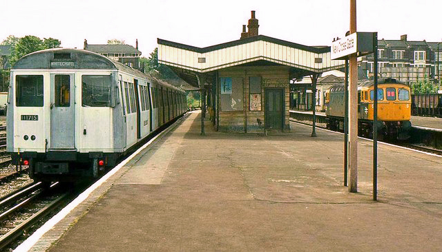 New Cross Gate station, London A LT Whitechapel train at New Cross Gate as BR 33.058 passes light(right).